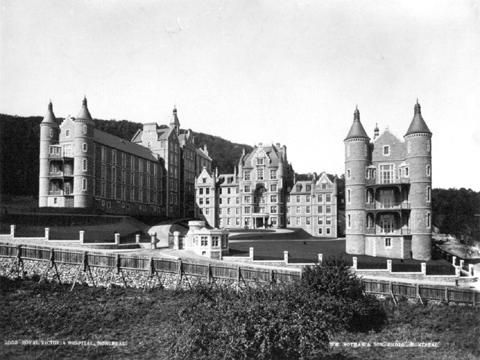 Archival image of the Royal Victoria Hospital, 1893